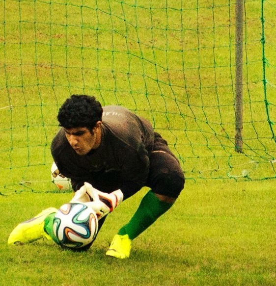 Taha Zareei in Sporting Lisbon training match